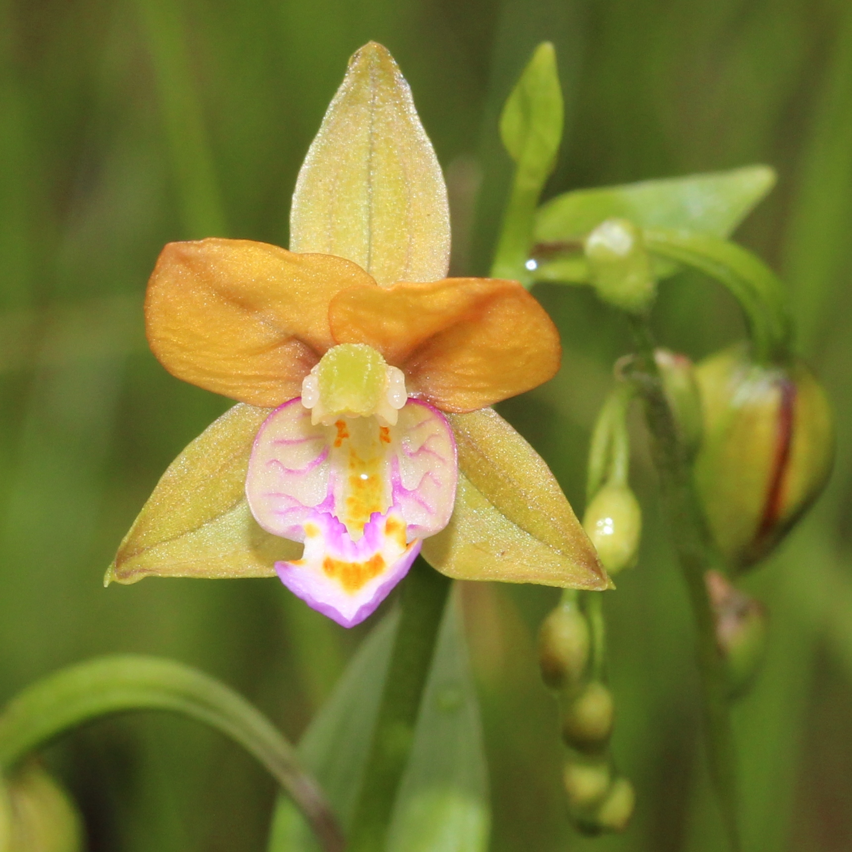 Flower of Epipactis thunbergii, in Shiga pref., Japan.